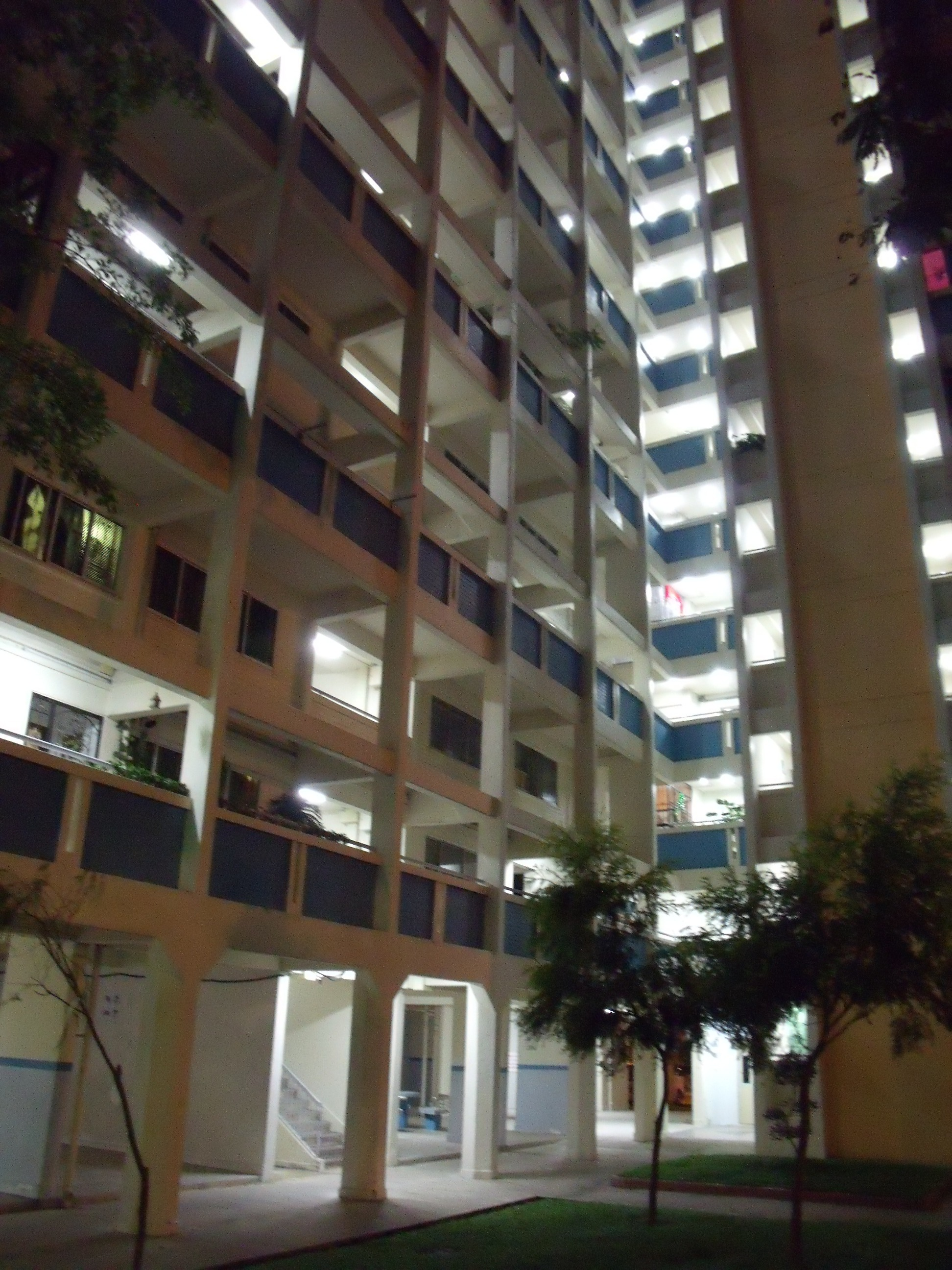 A high rise flat in Bukit Batok, Singapore.